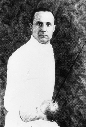 Italian fencer Nedo Nadi